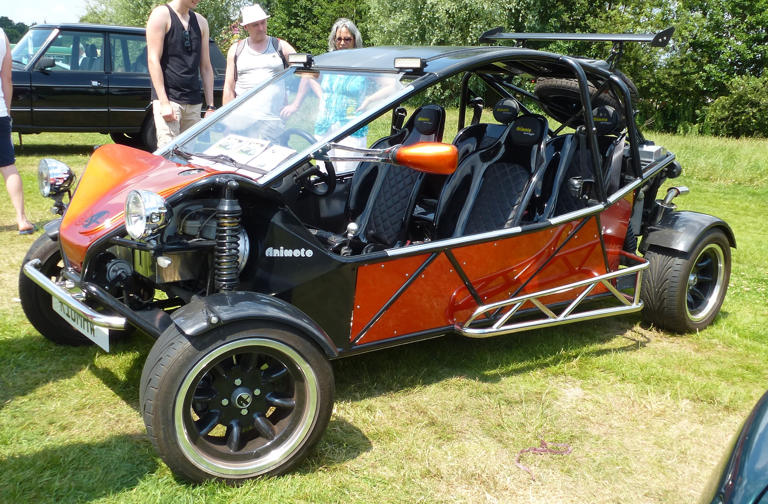 Animoto Sports Buggies 2014